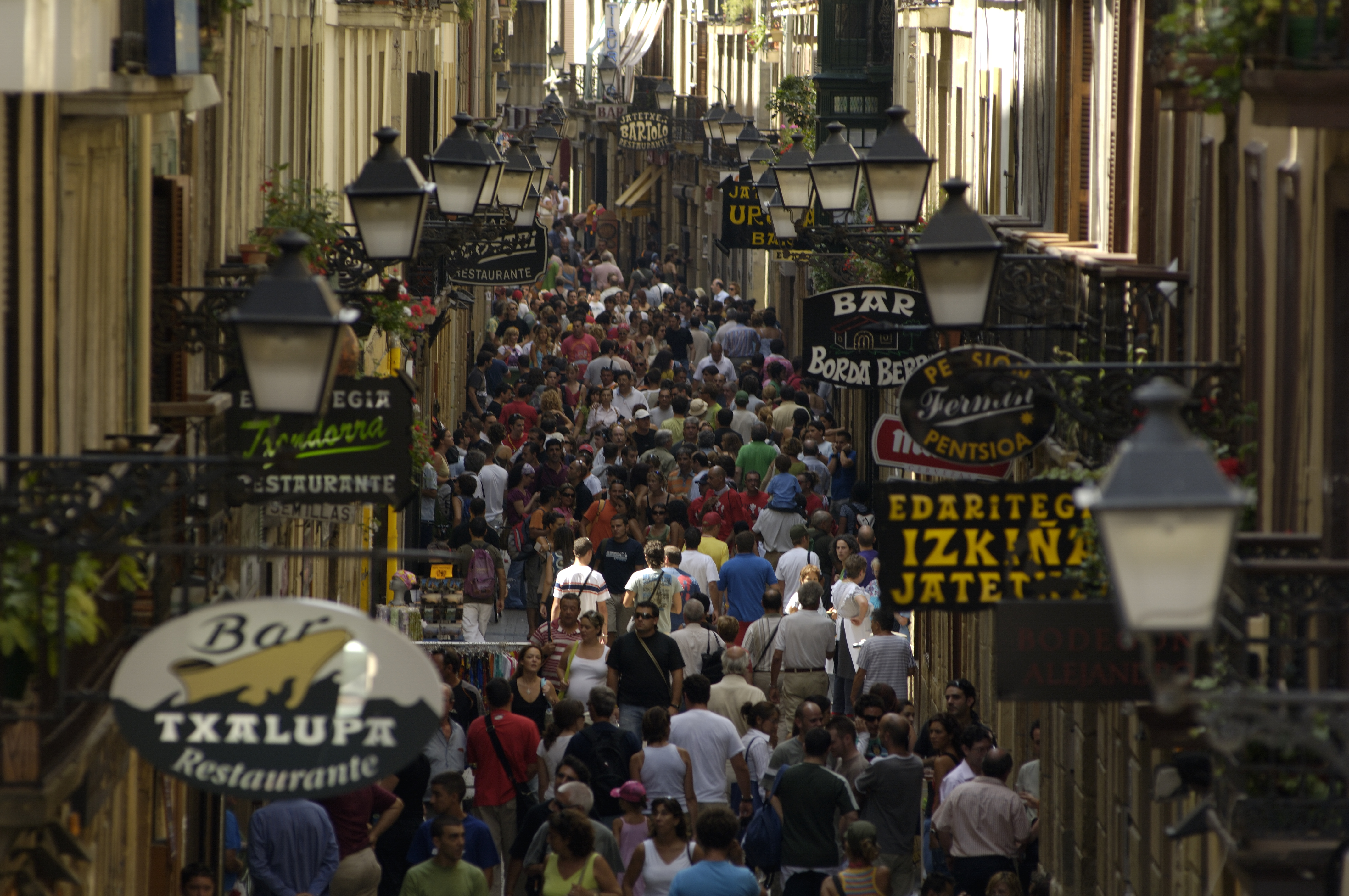 Old Town of Donostia. Donostia-Saint Sebastian, Gipuzkoa. Basque Country.